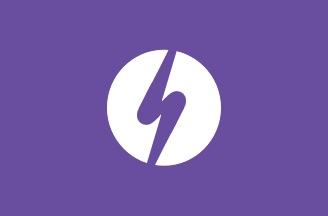 Flag of Itako Ibaraki